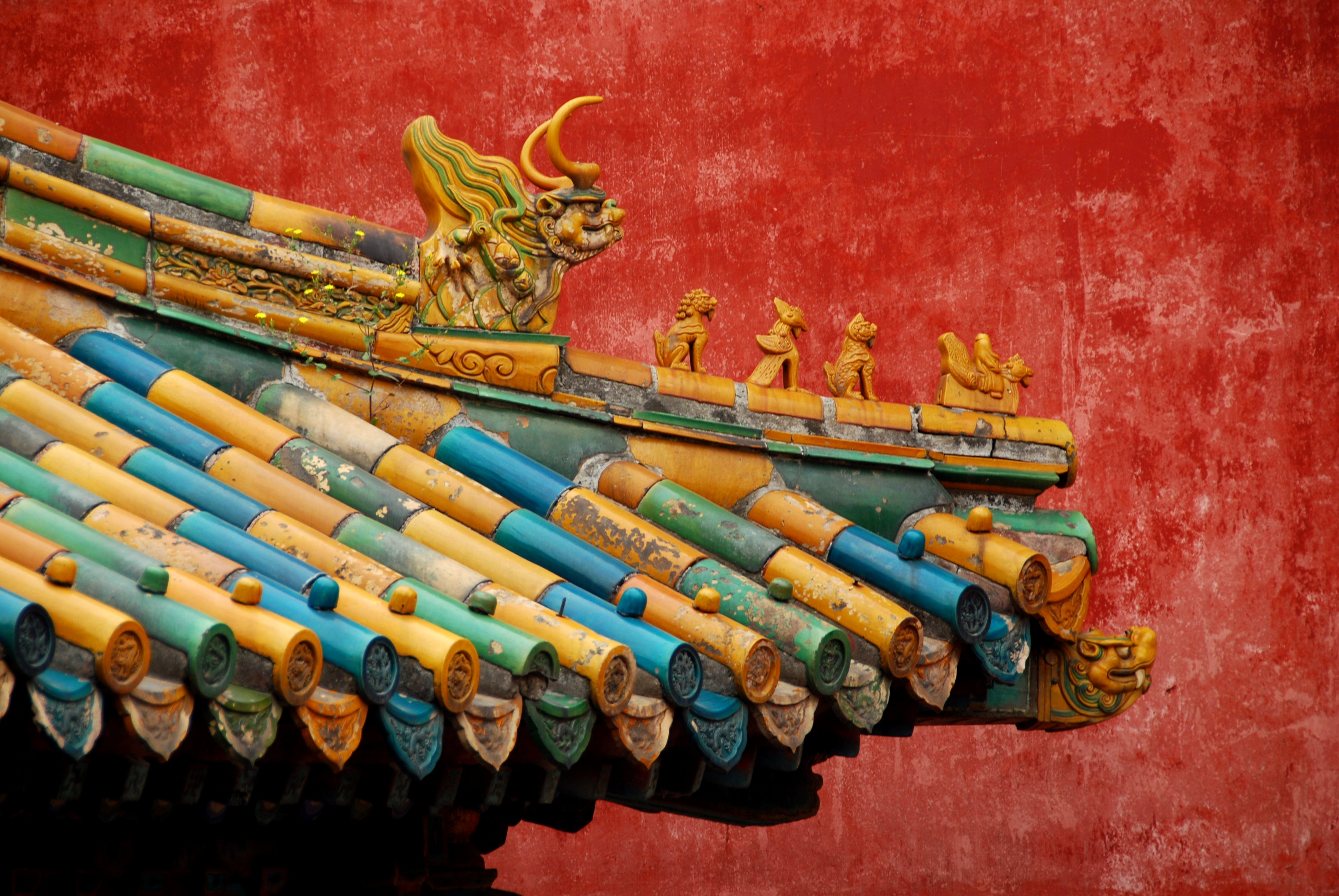 Detail of the Forbidden City, Beijing